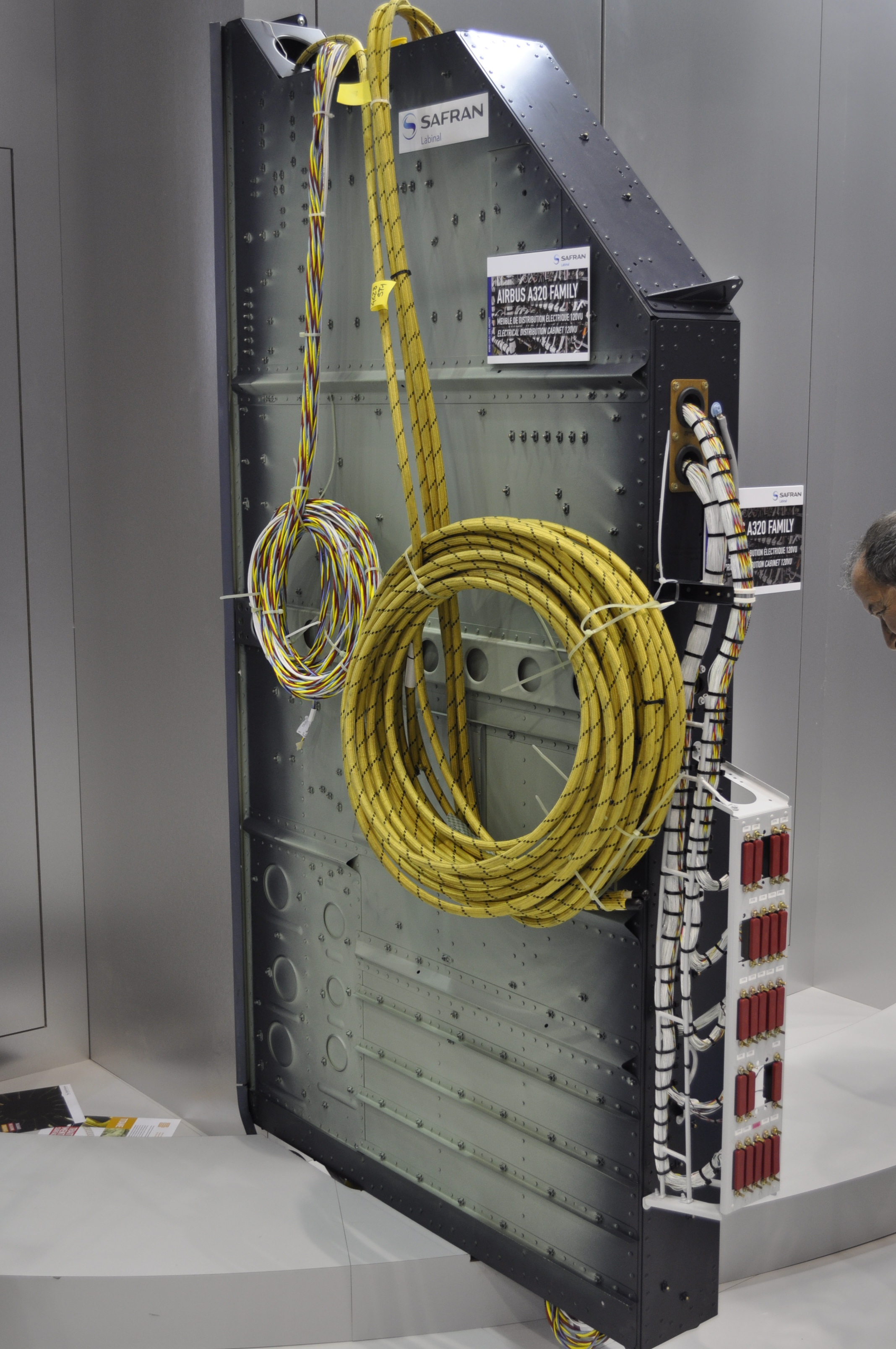 Electrical distribution cabinet 120 VU for Airbus A320 family Safran Labinal (now Safran Electrical & Power) Paris Air show 2011, Safran Stand